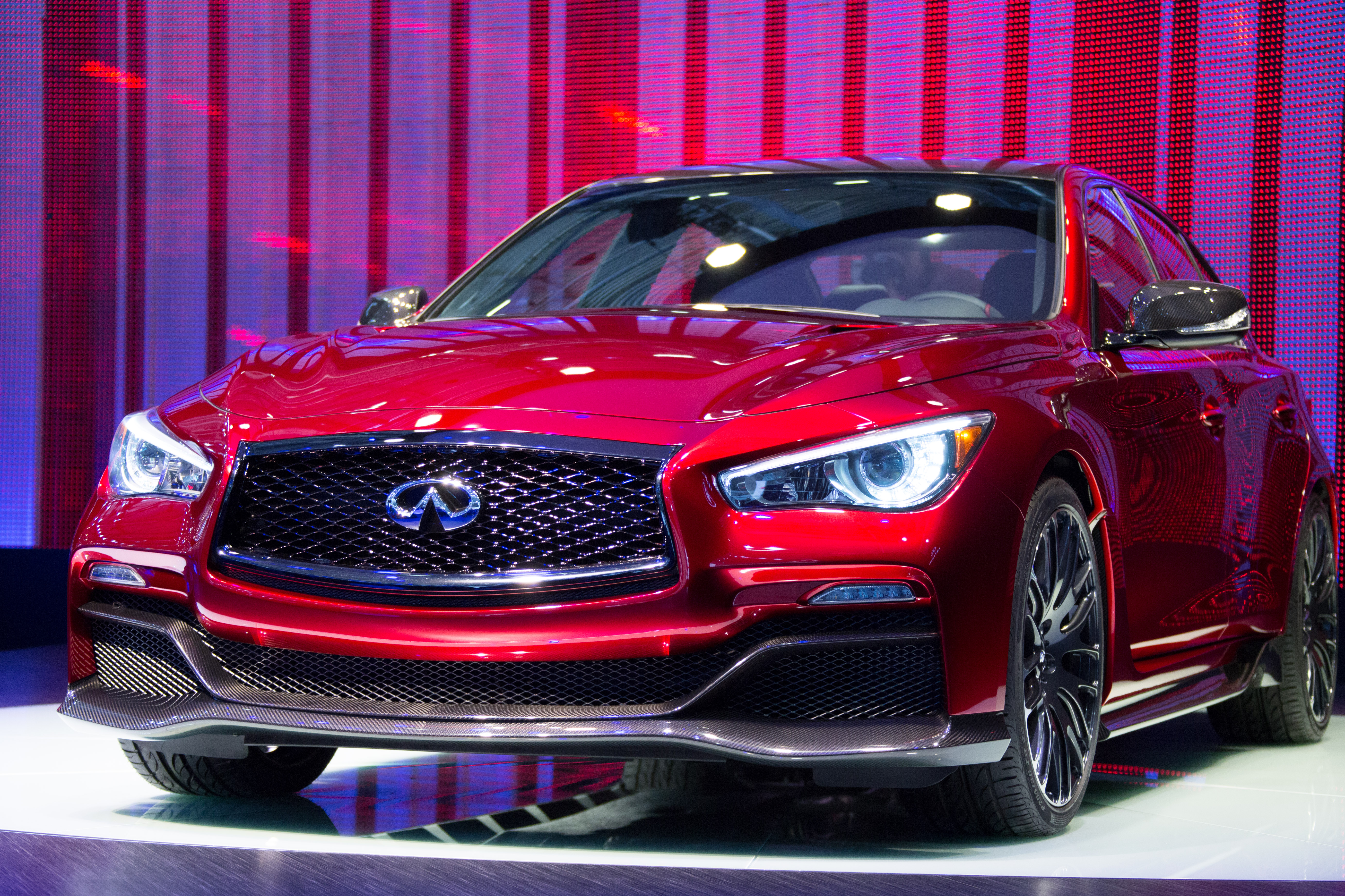 ITU will convene the Future Networked Car within the Geneva Motor Show 5-6 March 2014, with the kind support​ of Anheuser-Busch InBev. A High-level dialogue on Innovation for the Future Car on the second press day of the Geneva Motor Show will be moderated by British racing driver and television presenter Tiff Needell and engage well-known industry heads in a discussion on developments in the intelligent transport field, as well as how to foster innovation in this dynamic sector. A particular emphasis will be given to motor sport as an incubator for such technical advances. ©ITU/ I.Wood